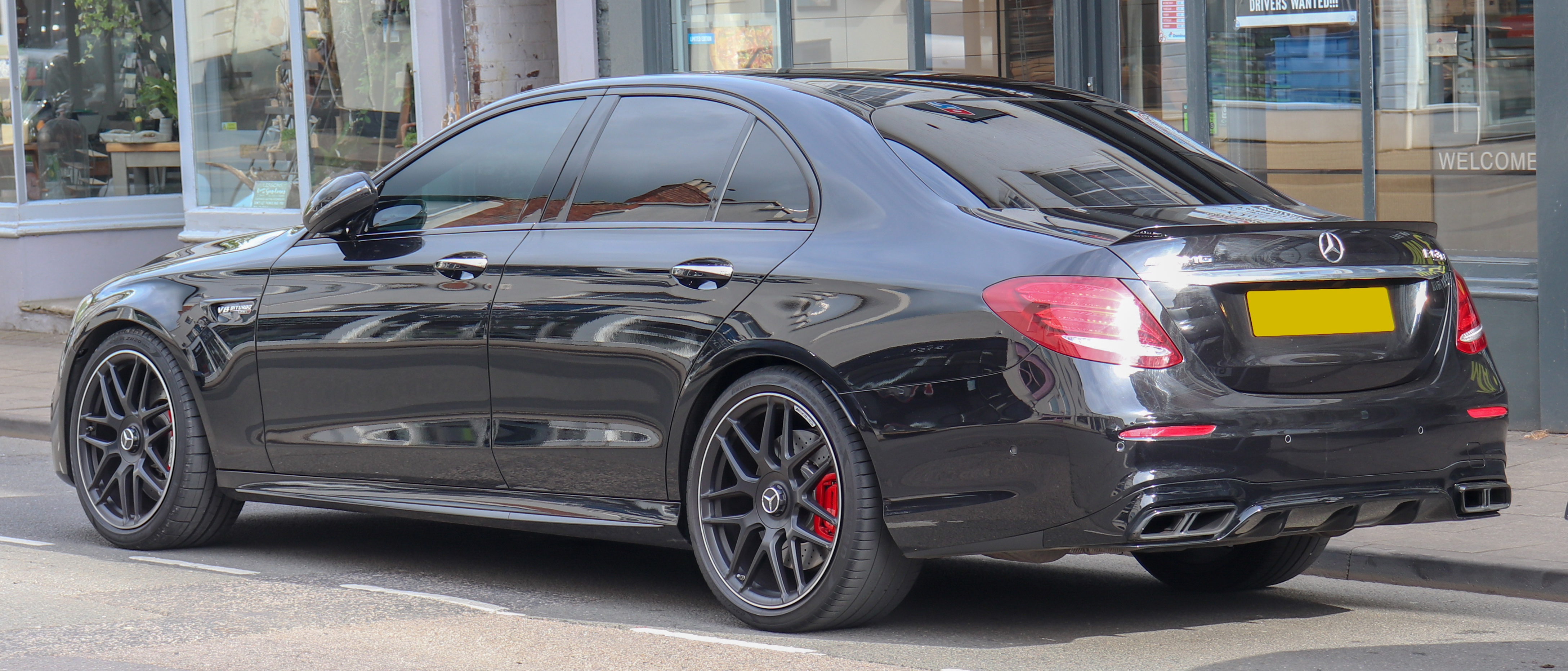 2018 Mercedes-AMG E 63 S Premium 4MATIC 4.0 Rear Taken in Leamington Spa